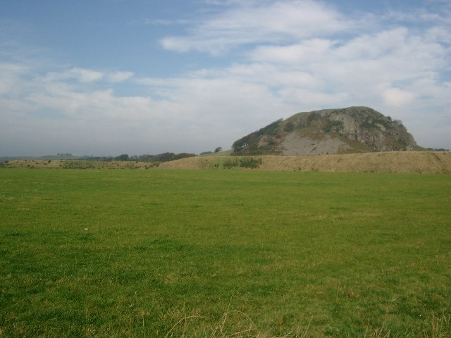 Site of the Battle of Loudoun Hill (1307) King Robert the Bruce inflicted punishment on the English in 1307 at a battle here. But he would not recognise the site now. Extensive sand extraction has removed the hills and valleys and resulted in this flat green area. Loudoun Hill is in the background of this picture.